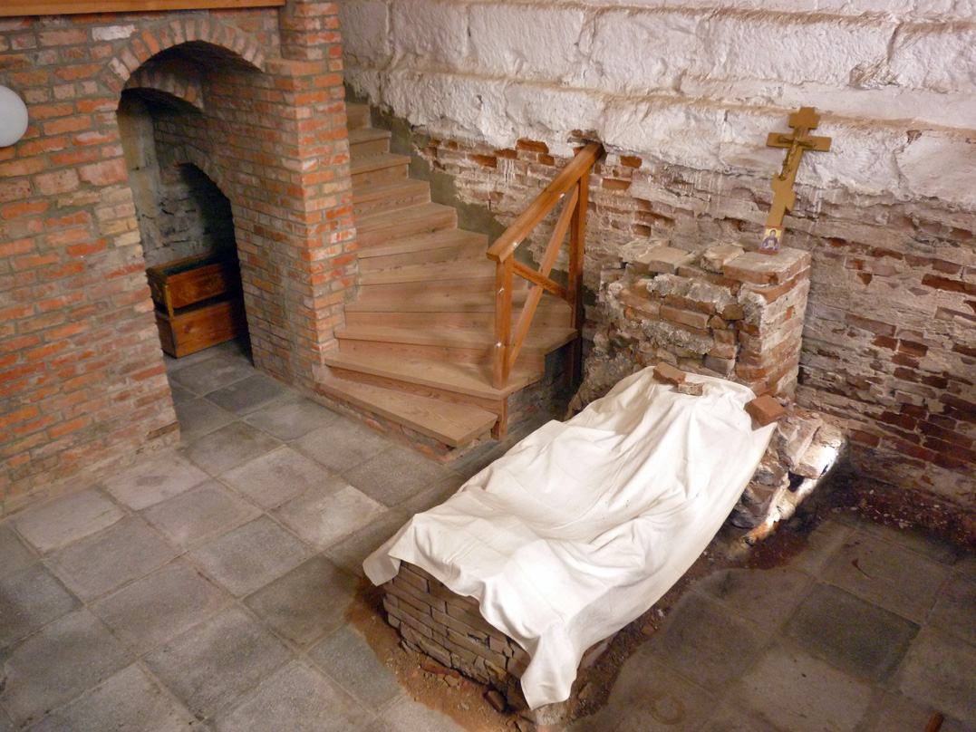 Position finding of the relics of St. Dalmat Isetsky